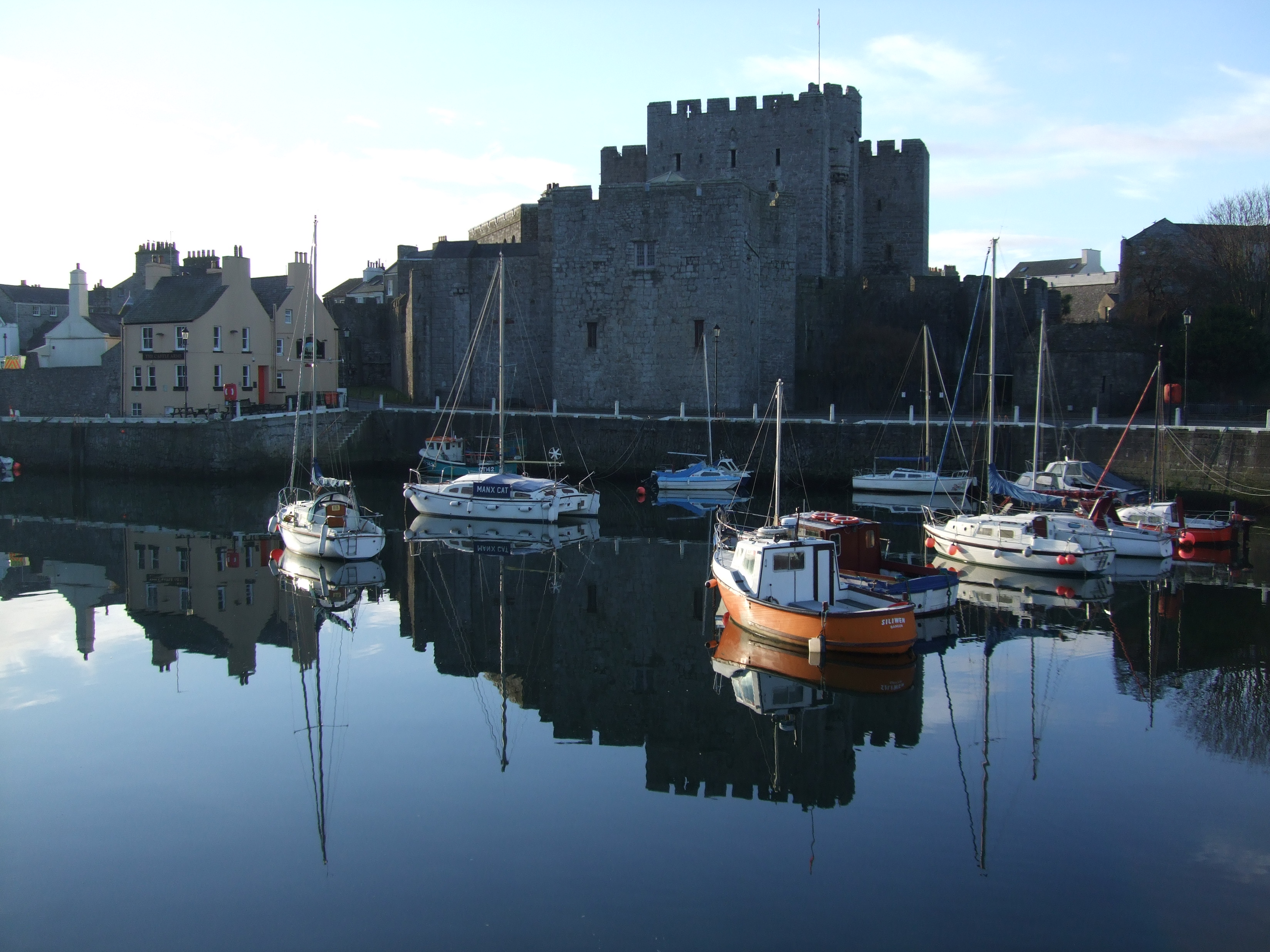 Castle Rushen and outer harbour Castletown